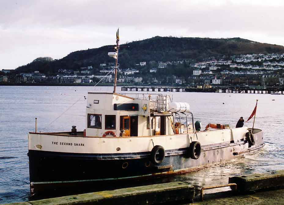 MV The Second Snark at Gourock pierhead, with Lyle Hill in the background.